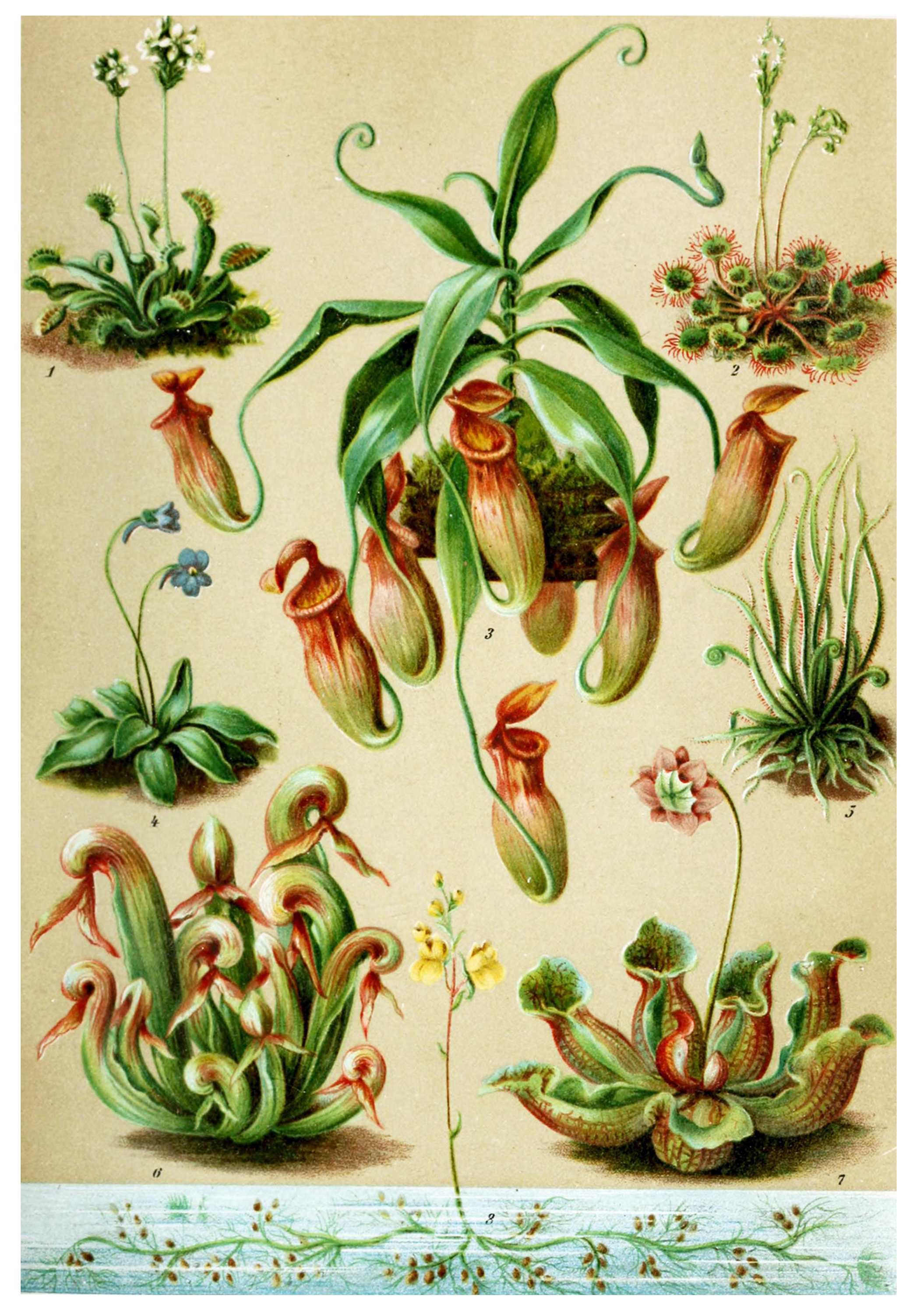 Carnivorous plant